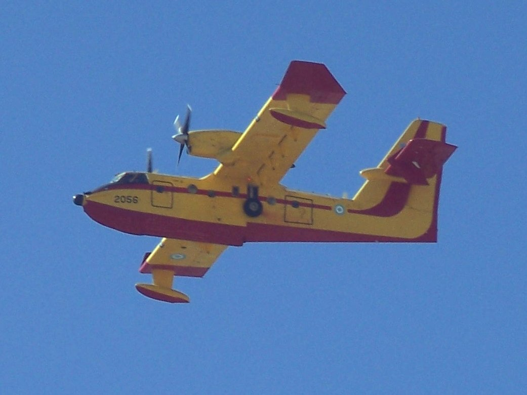 A Canadair CL-415 MP (SAR) of the Hellenic Air Force in action over Athens.